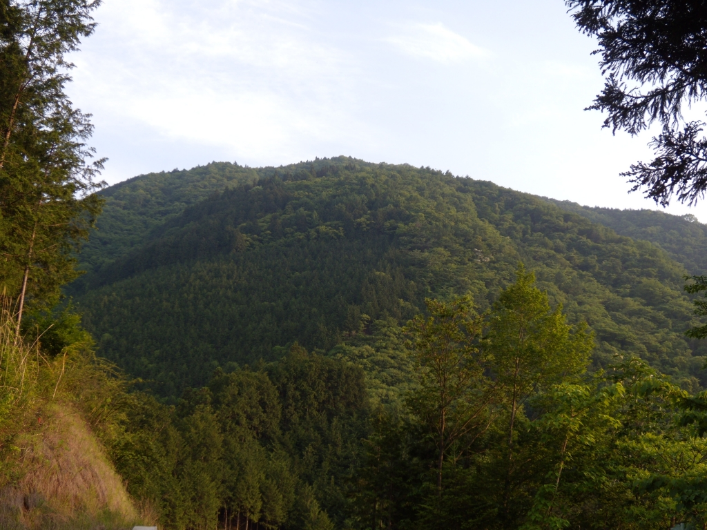 Mount Kumakura (Kumakurasan) in Saitama, Japan, seen from Mount Shiro